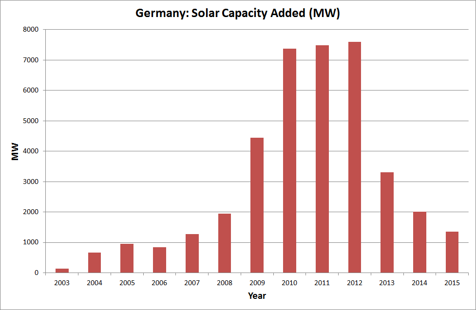 Germany: Annual increase in solar capacity as provided by the article Solar power in Germany